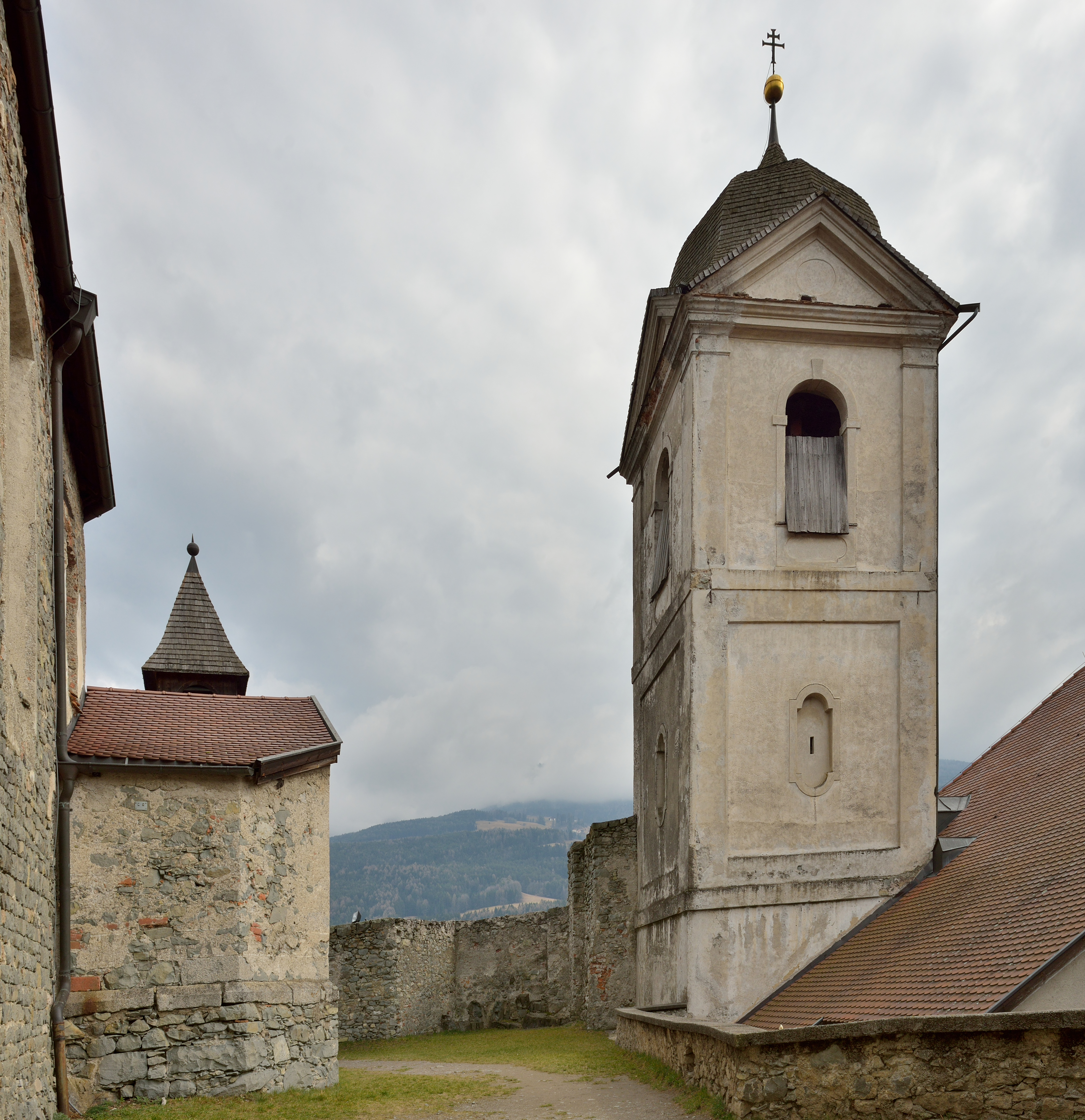 Abbey church in the Säben Abbey in South Tyrol